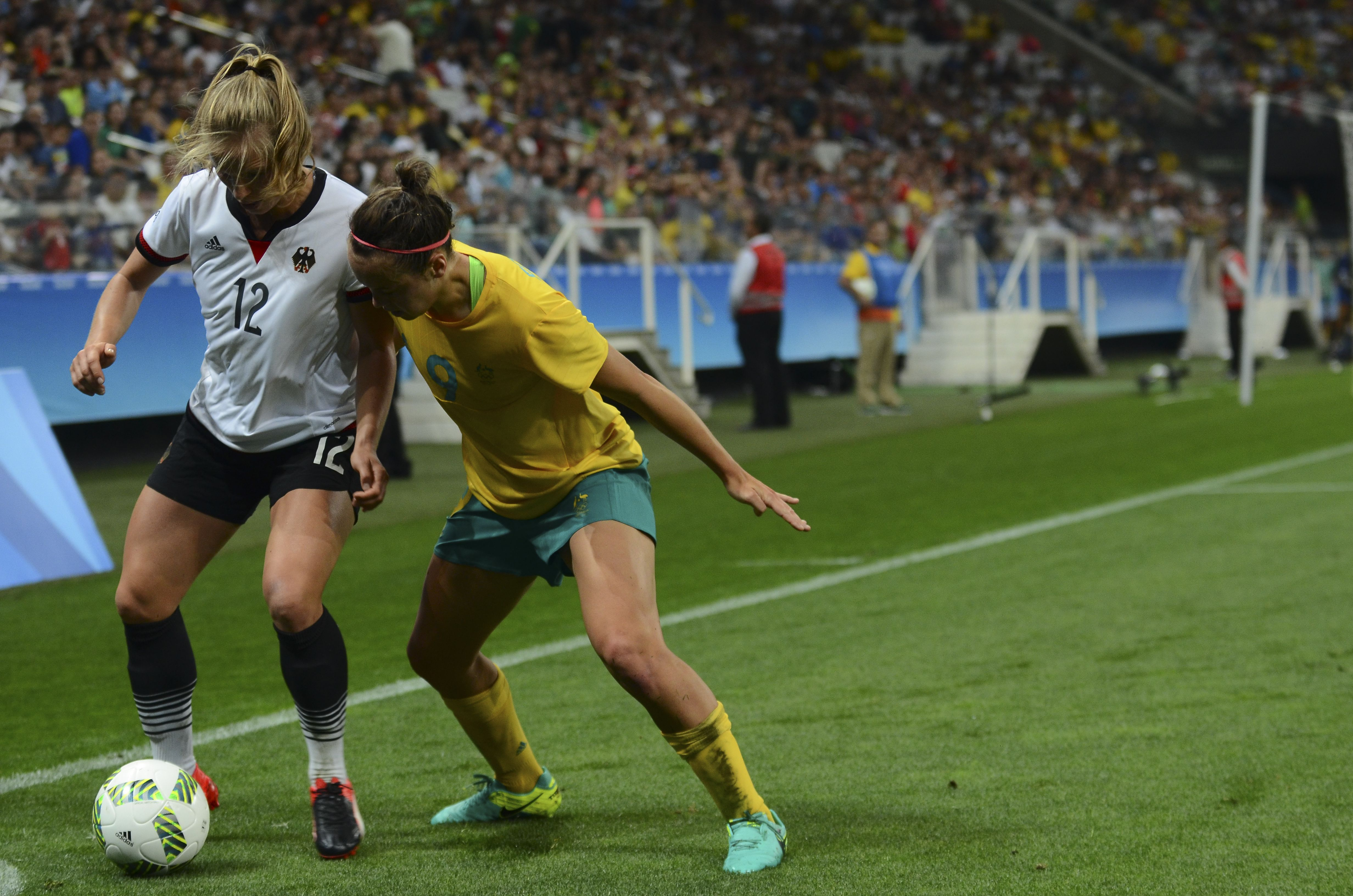 2016 Summer Olympics soccer, Australia vs. Germany, 6 August 2016